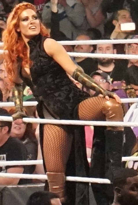 Becky Lynch at WrestleMania 34